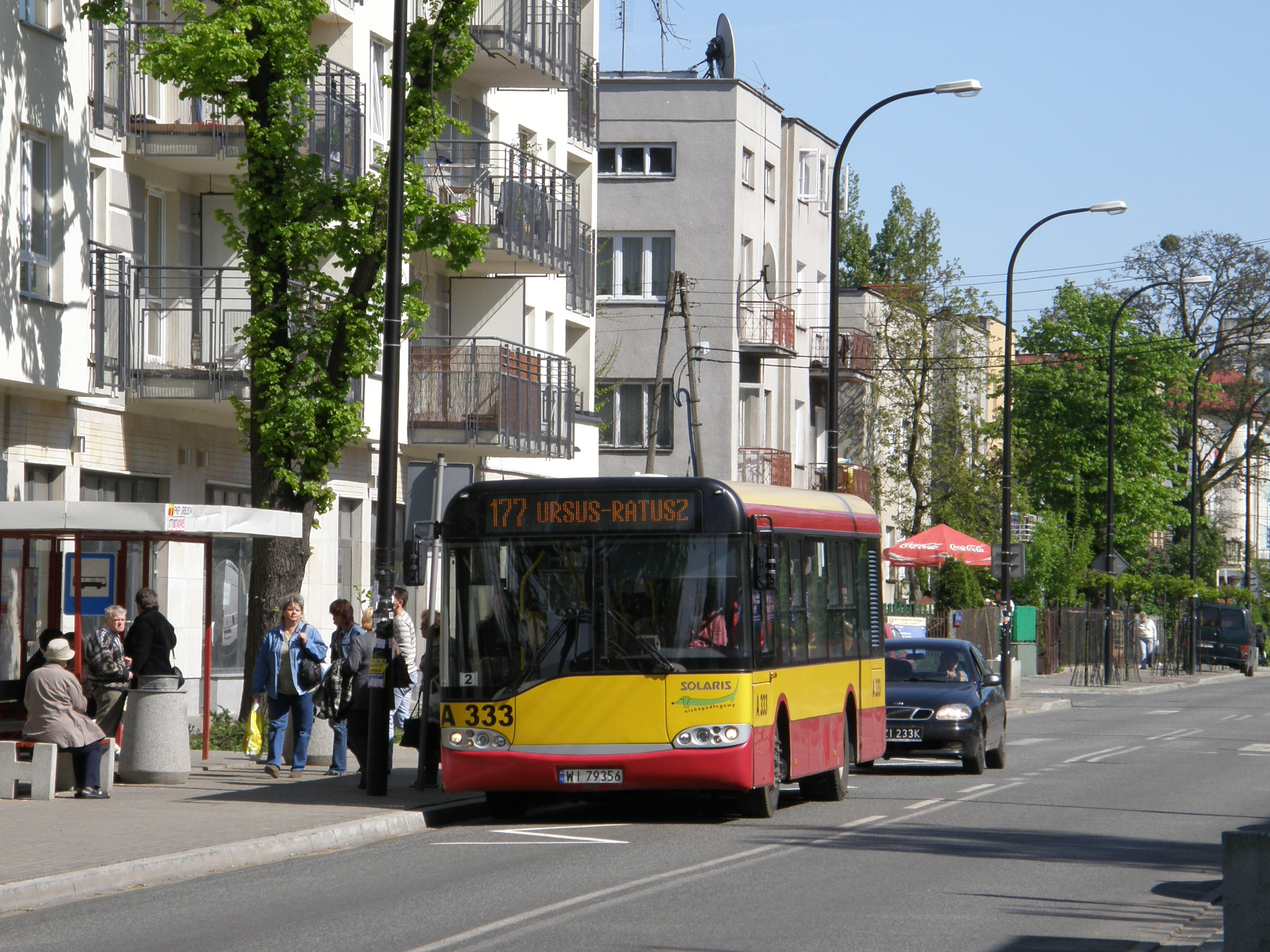 Solaris Urbino 10 (Solaris Urbinetto 10, #A333) bus in Warsaw, Poland. Mobilis company from Mościska. Year built 2003.